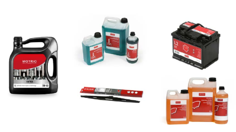 Universal Products Motrio